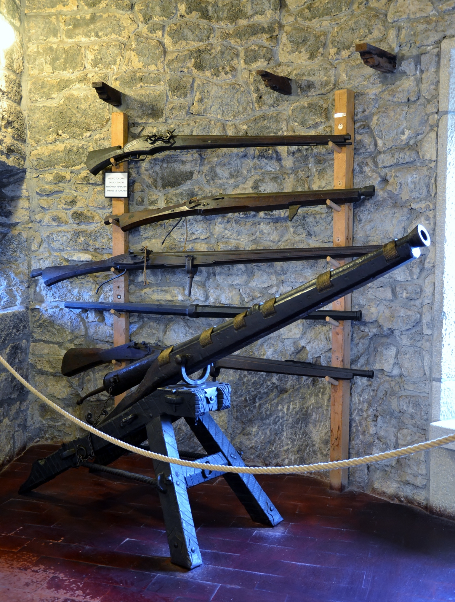 museum of the old wappons, san marino